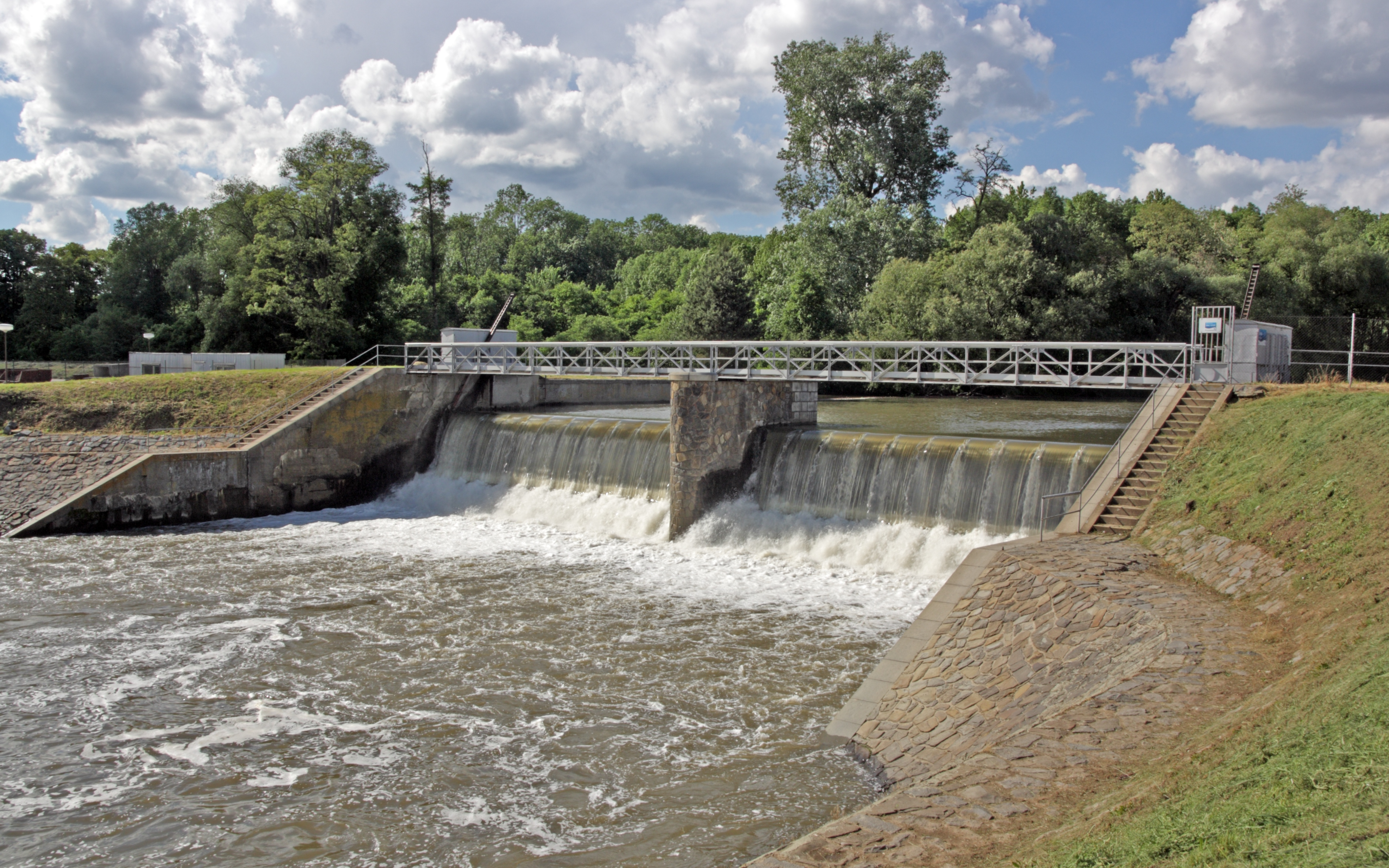 Weir on the Svratka river at Rajhrad, Czech republic.